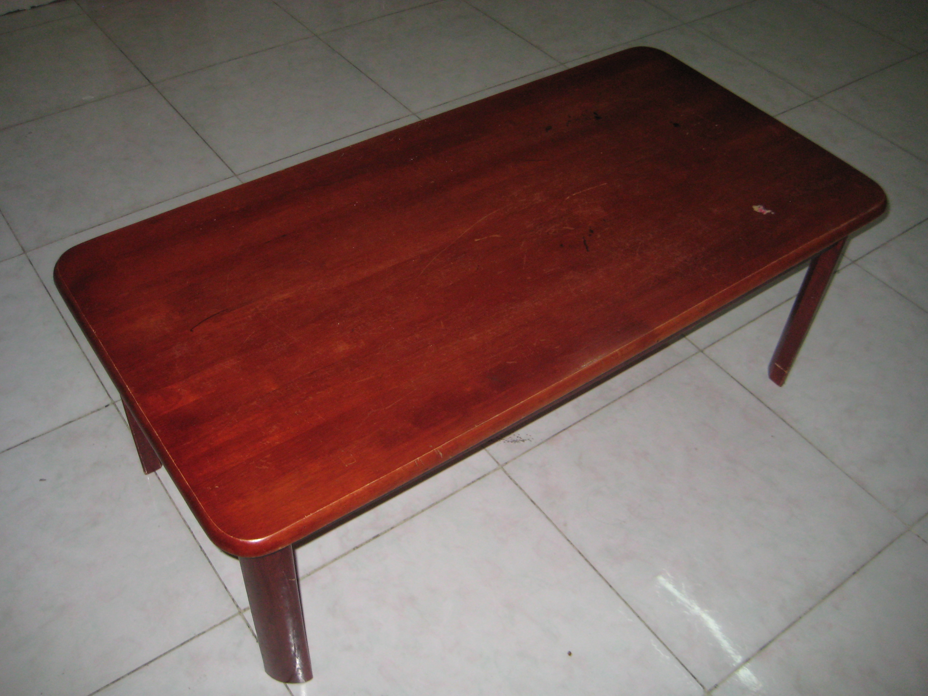 Tea-poy